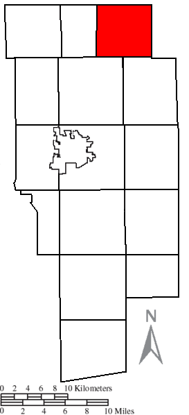 Originally created by the US Census. Modified by myself to highlight the township.